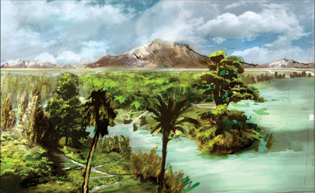 Paleoenvironment Lefipán Formation 3 - Danian